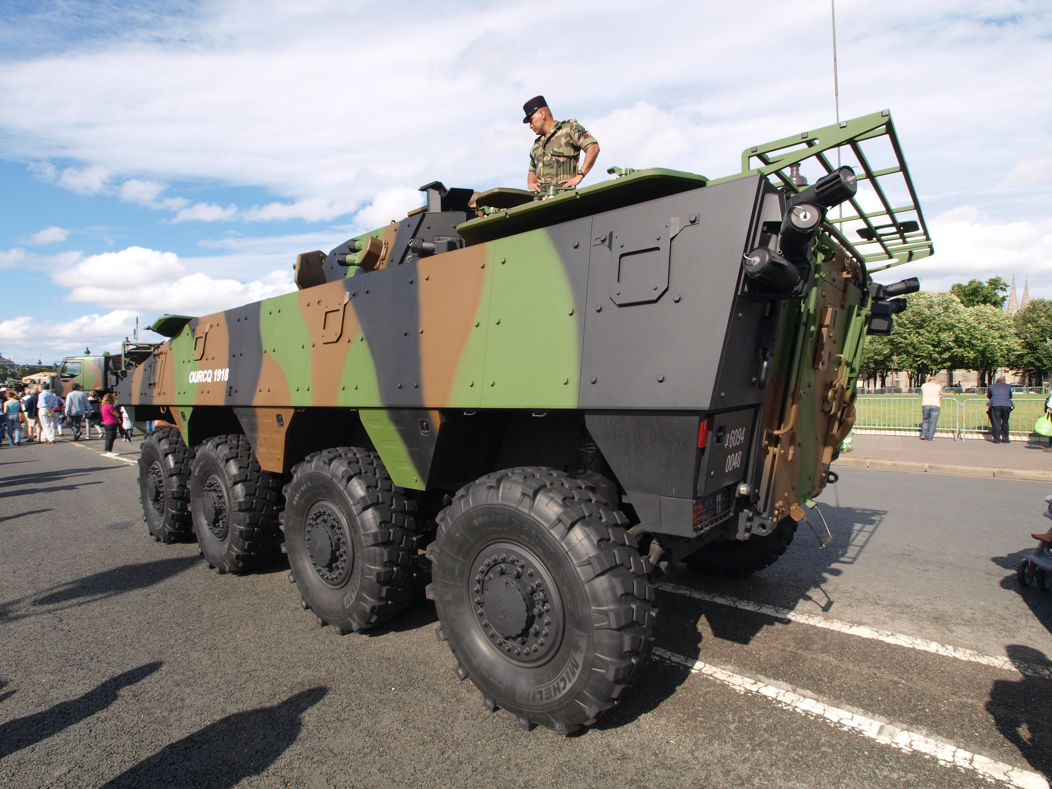 VBCI, (Véhicule Blindé de Combat de l'Infanterie), 92th Infantry Regiment, French army licence registration '6094 0048', OURCQ 1918